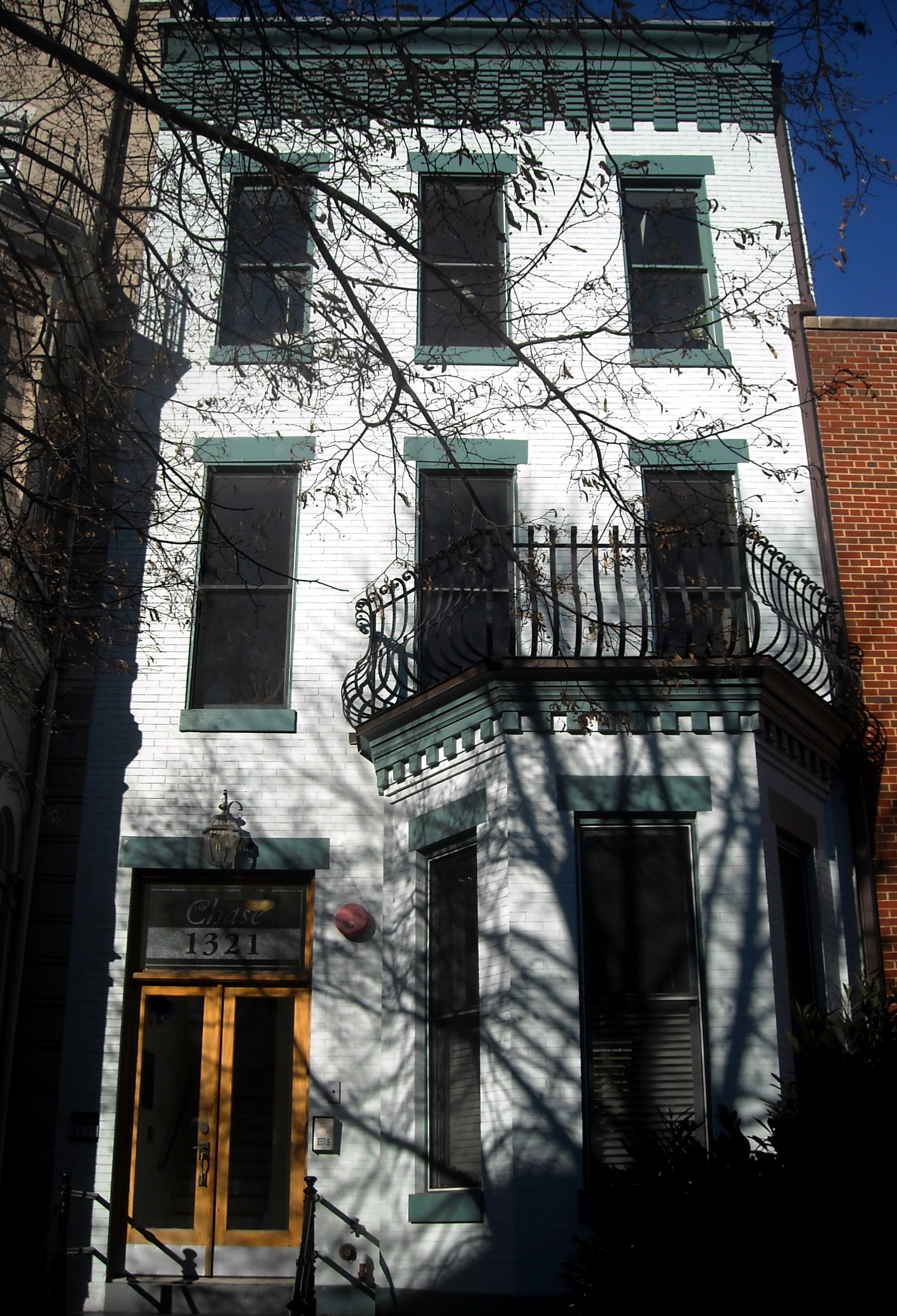 1321 R Street, N.W., located in the Logan Circle neighborhood of Washington, D.C., was built in 1878 for journalist and Medal of Honor recipient Henry Van Ness Boynton (son of Charles B. Boynton, Howard University's first president). Designed in the Italianate architectural style, the building is a contributing property to the Fourteenth Street Historic District, listed on the National Register of Historic Places in 1994.